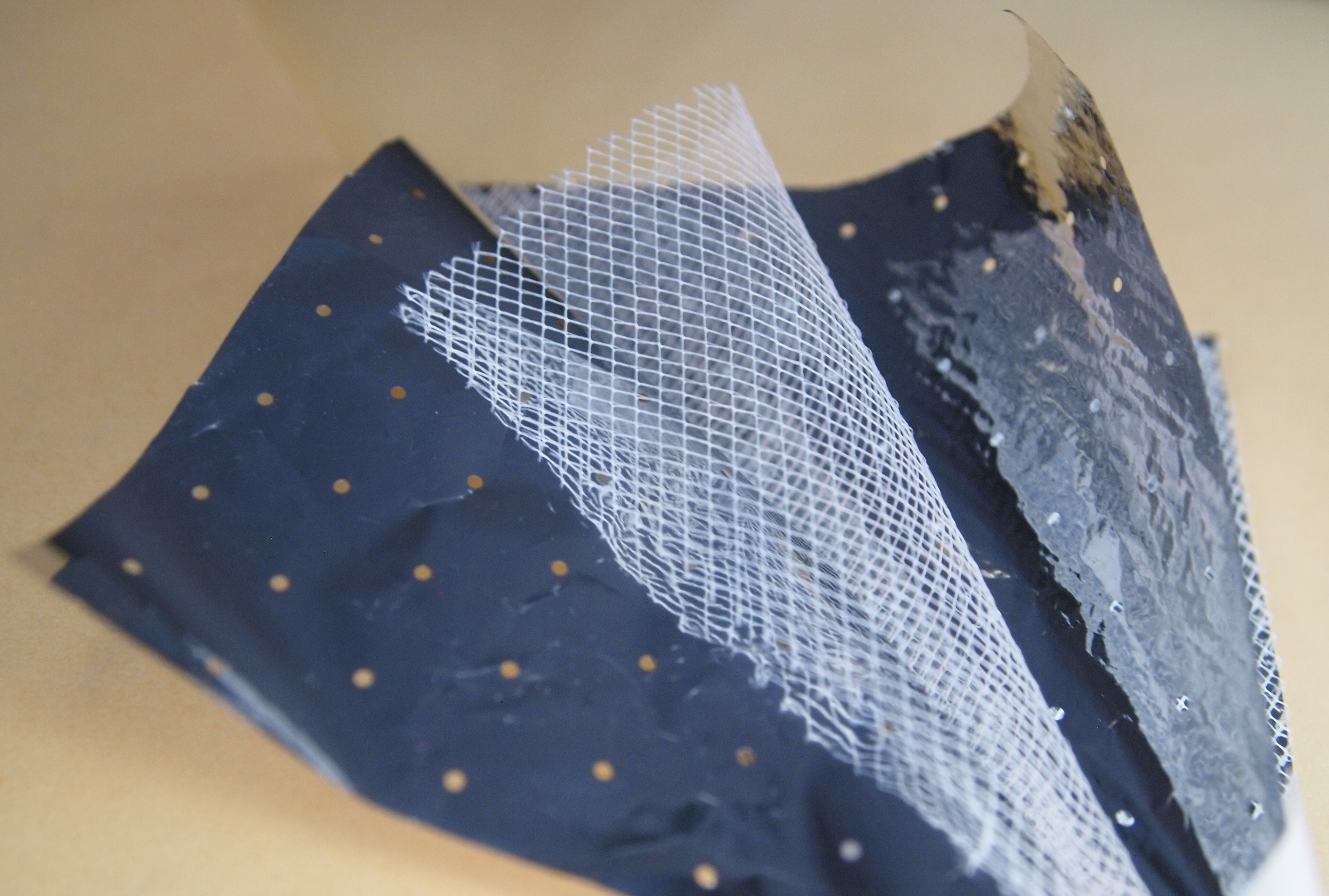 Aluminum coated multi-layer insulation (MLI). In this sample, the outer layer on the left is made of thicker materiel and coated with aluminum on both sides. The white netting is used as spacer between the layers. The inner layer sheet on the right is made of thinner material coated with aluminum on both sides. It is also crinkled to provide additional separation between the layers. This sample is also perforated to allow air passage during launch.